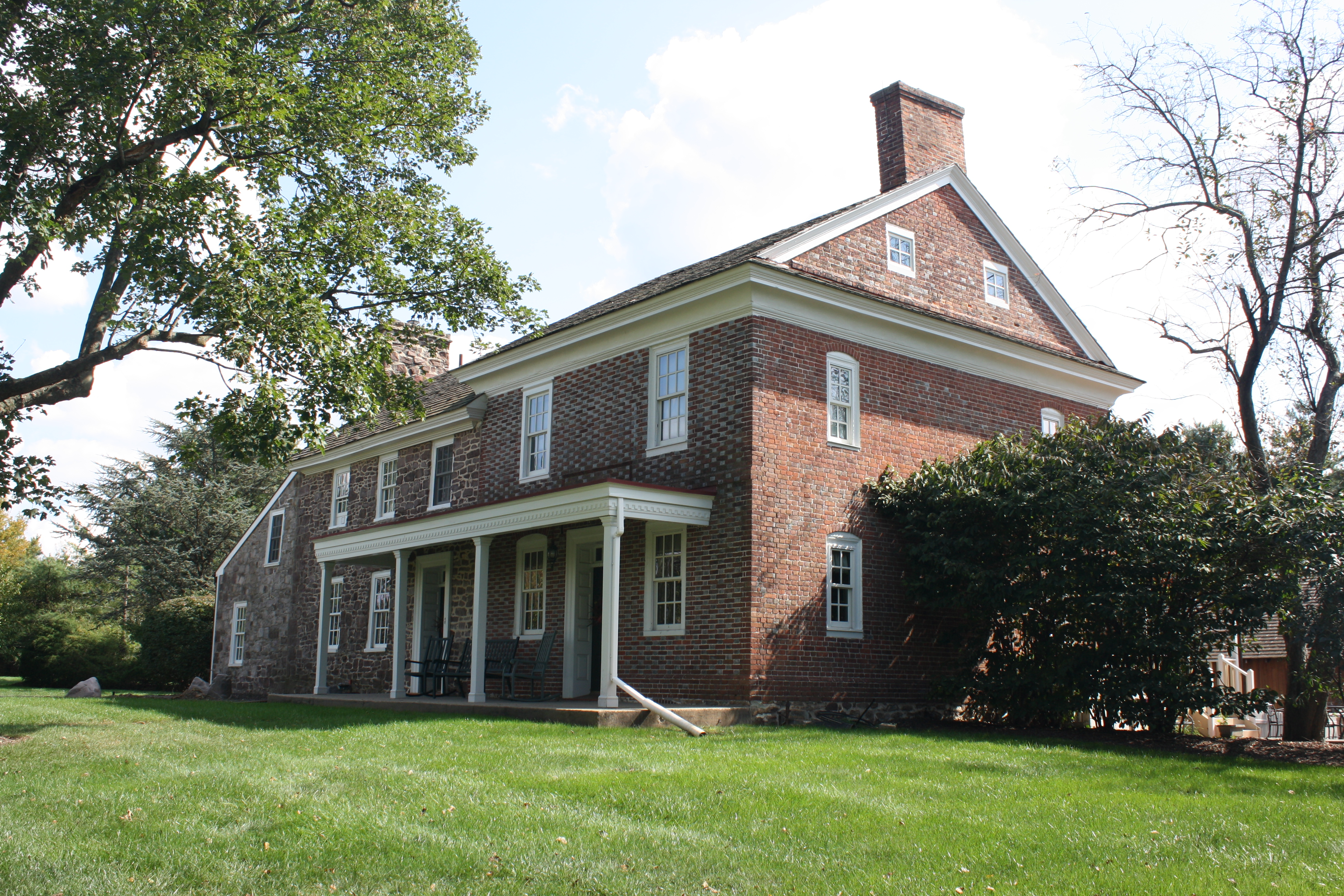 Amos Palmer House General view